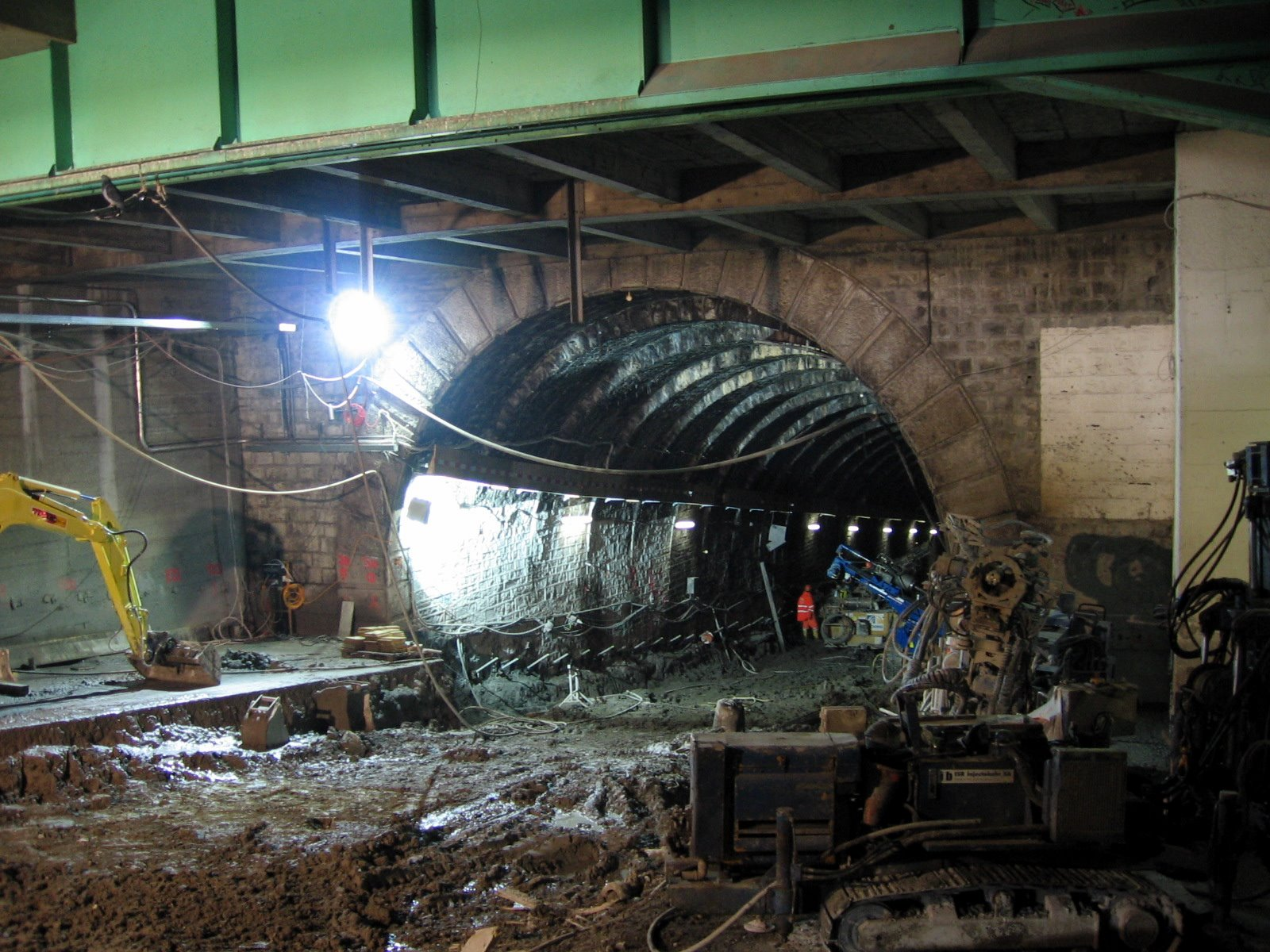 The metro has since been m2 completed.